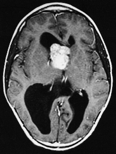 SUBEPENDYMAL GIANT CELL ASTROCYTOMA (TUBEROUS SCLEROSIS) s of the type associated with tuberous sclerosis are typically bulky, contrast-enhancing masses in the region of the foramen of Monro. Most overlie the head of the caudate nucleus. Foramen obstruction has produced hydrocephalus.